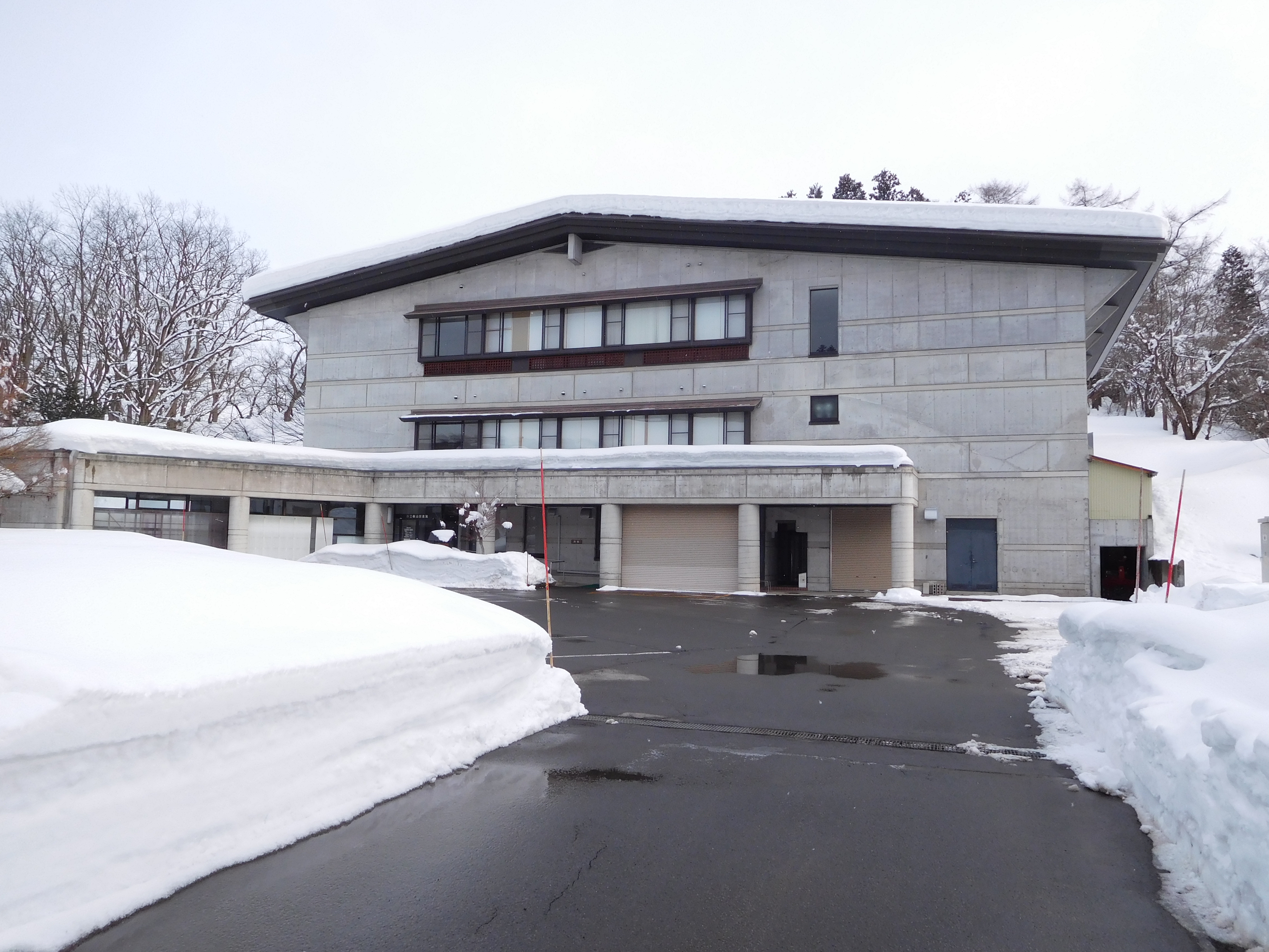 This is Public Library of Iiyama City, which is located in Iiyama, Nagano, Japan.